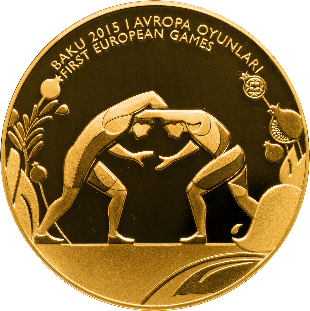 Commemorative coin of Azerbaijan